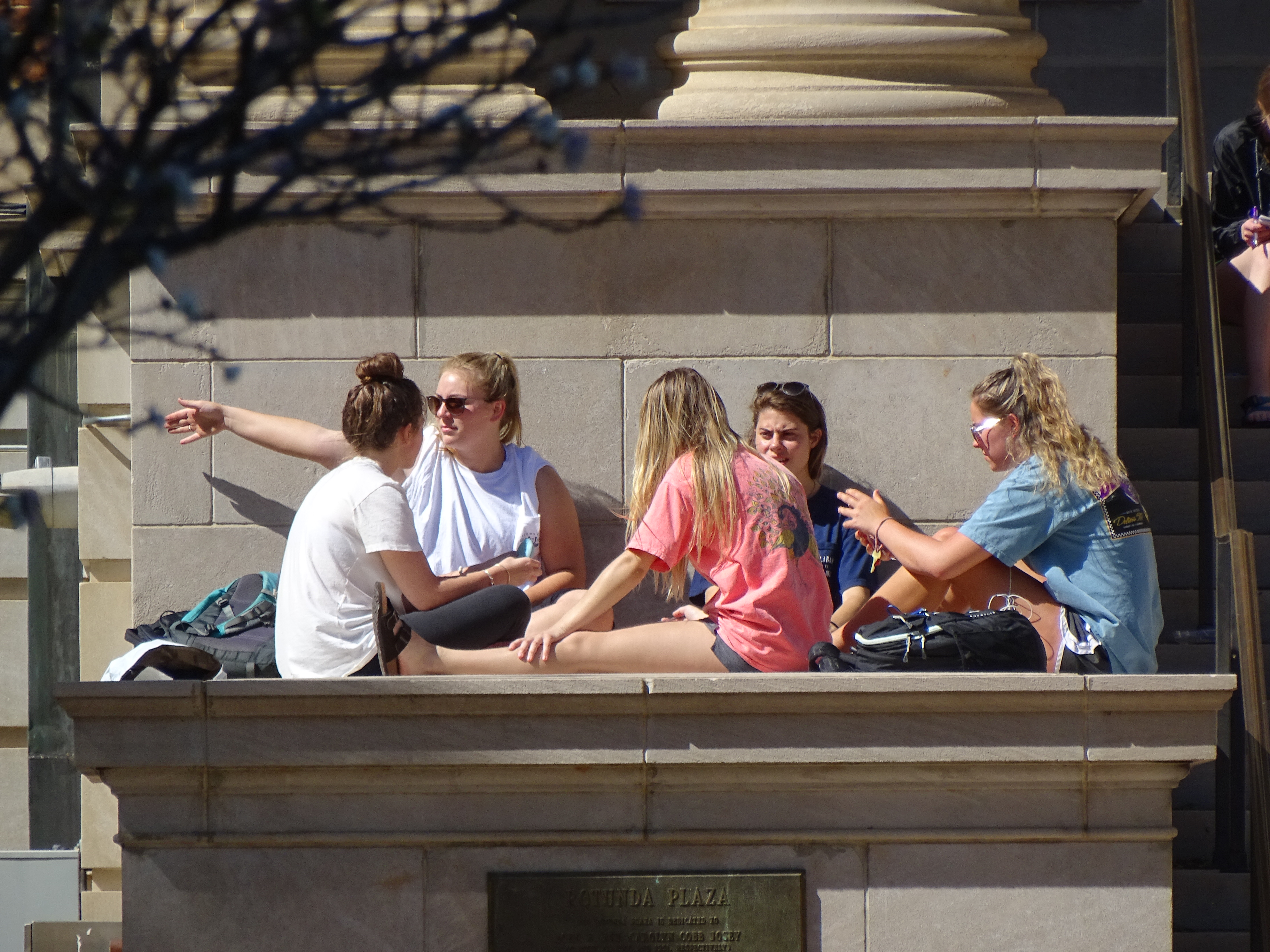 Campus Scene - University of Alabama-Tuscaloosa - Tuscaloosa - Alabama - USA - 02